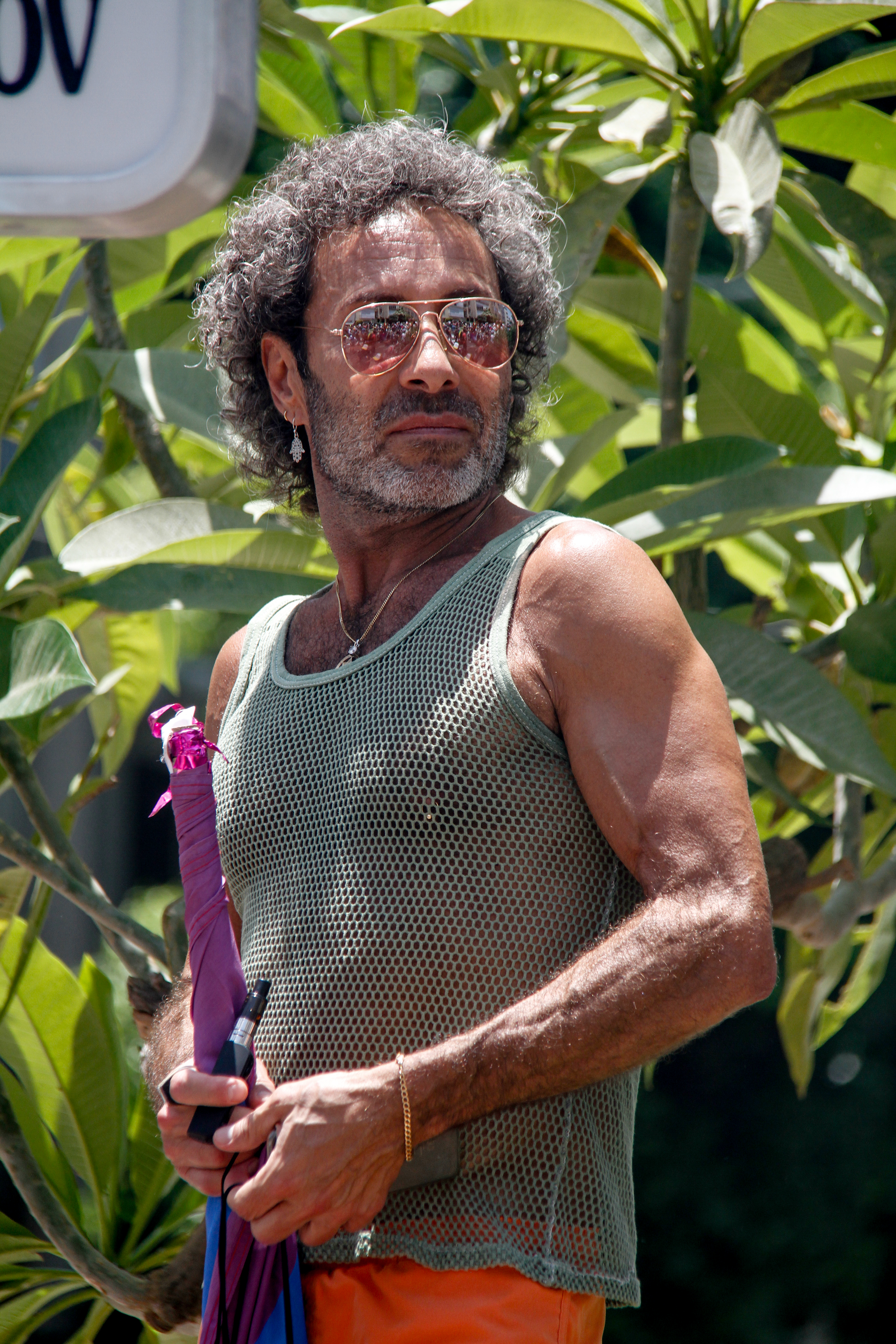 Jean-Pierre Barda at Gay Pride Tel Aviv 2018